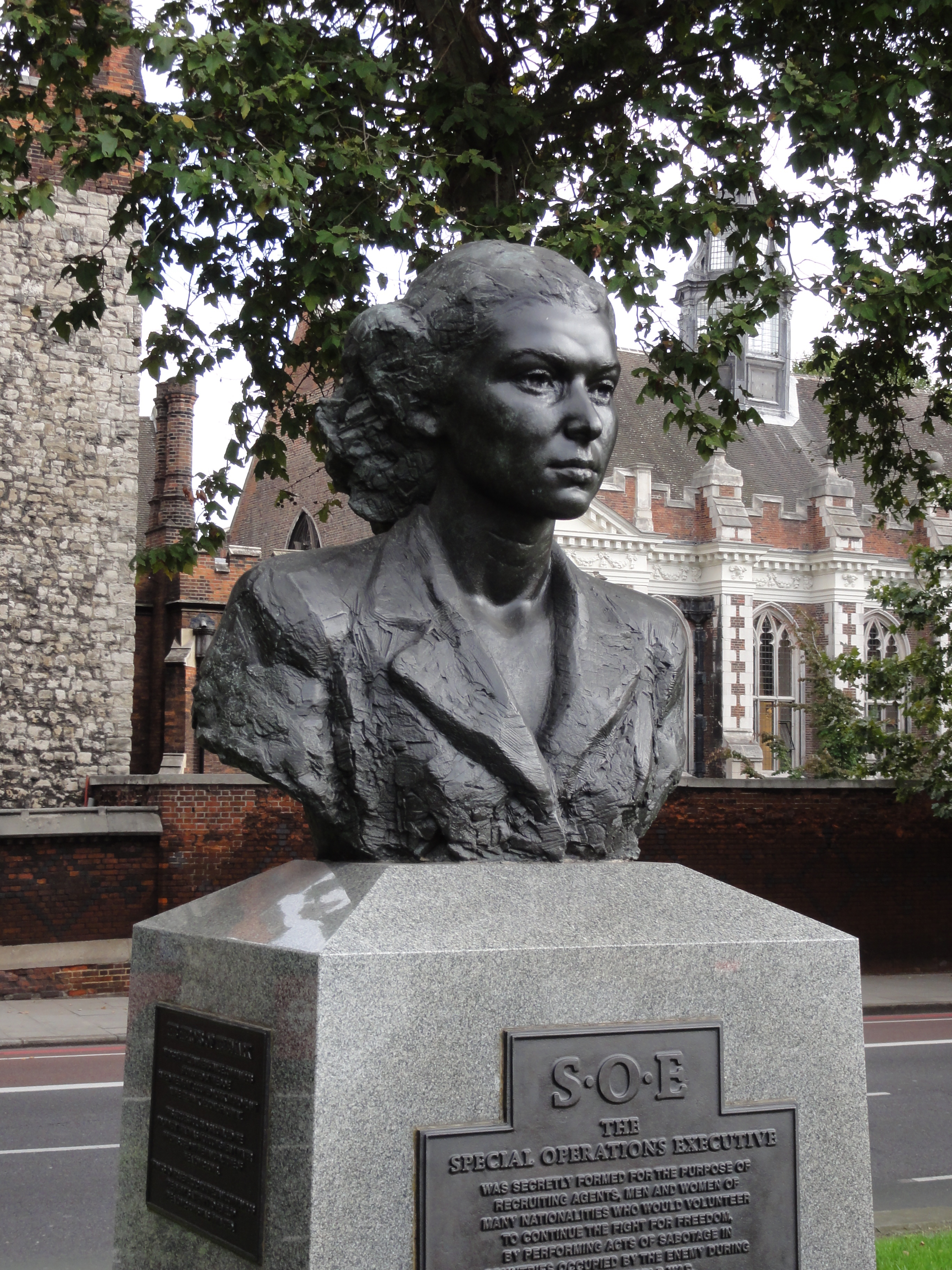 This bust, sculpted by Karen Newman, which commemorates SEO operatives in the Second World War, can be found on Albert Embankment, London UK.